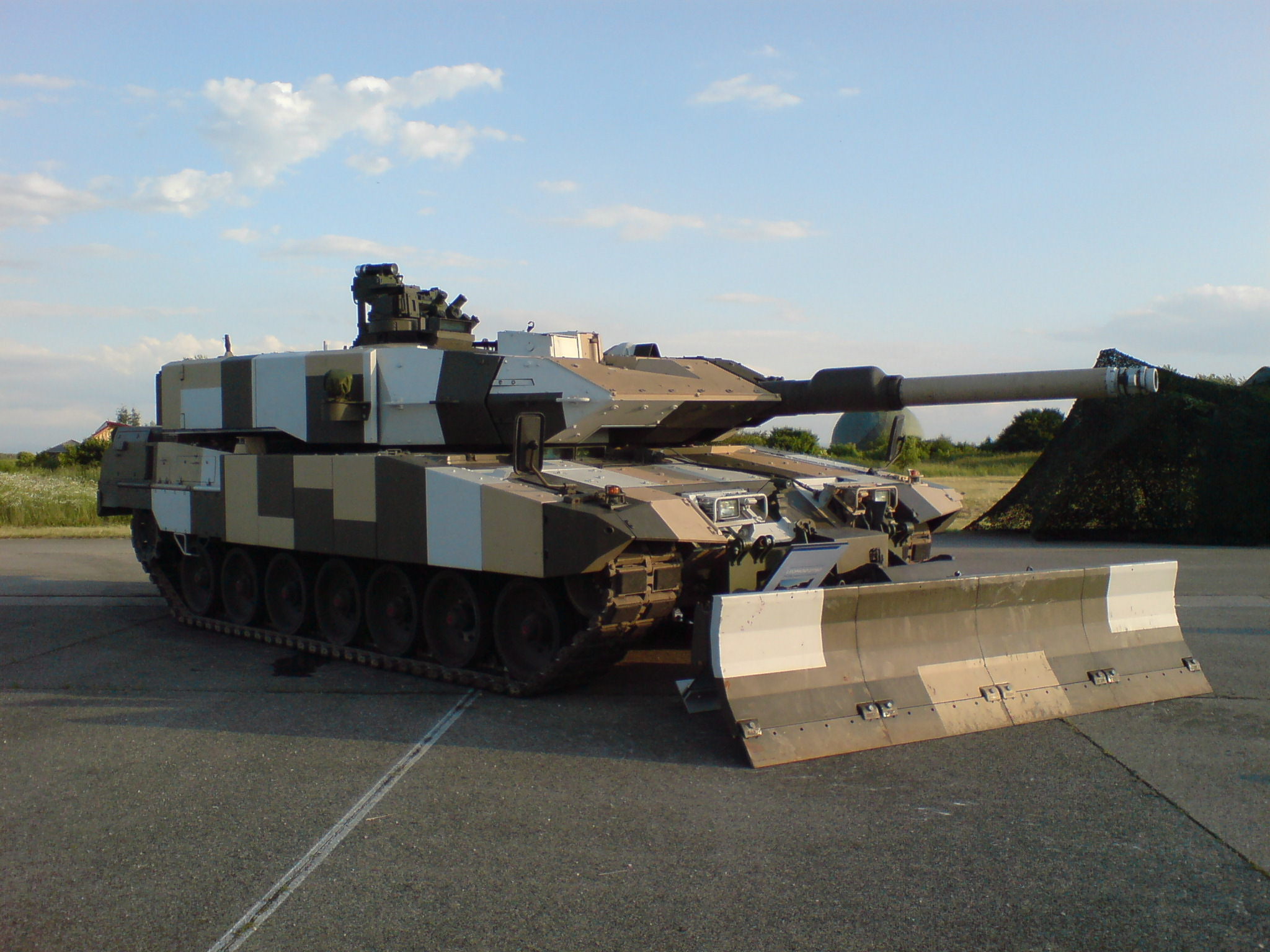 Leopard 2 PSO prototype in Munich, 2008, front